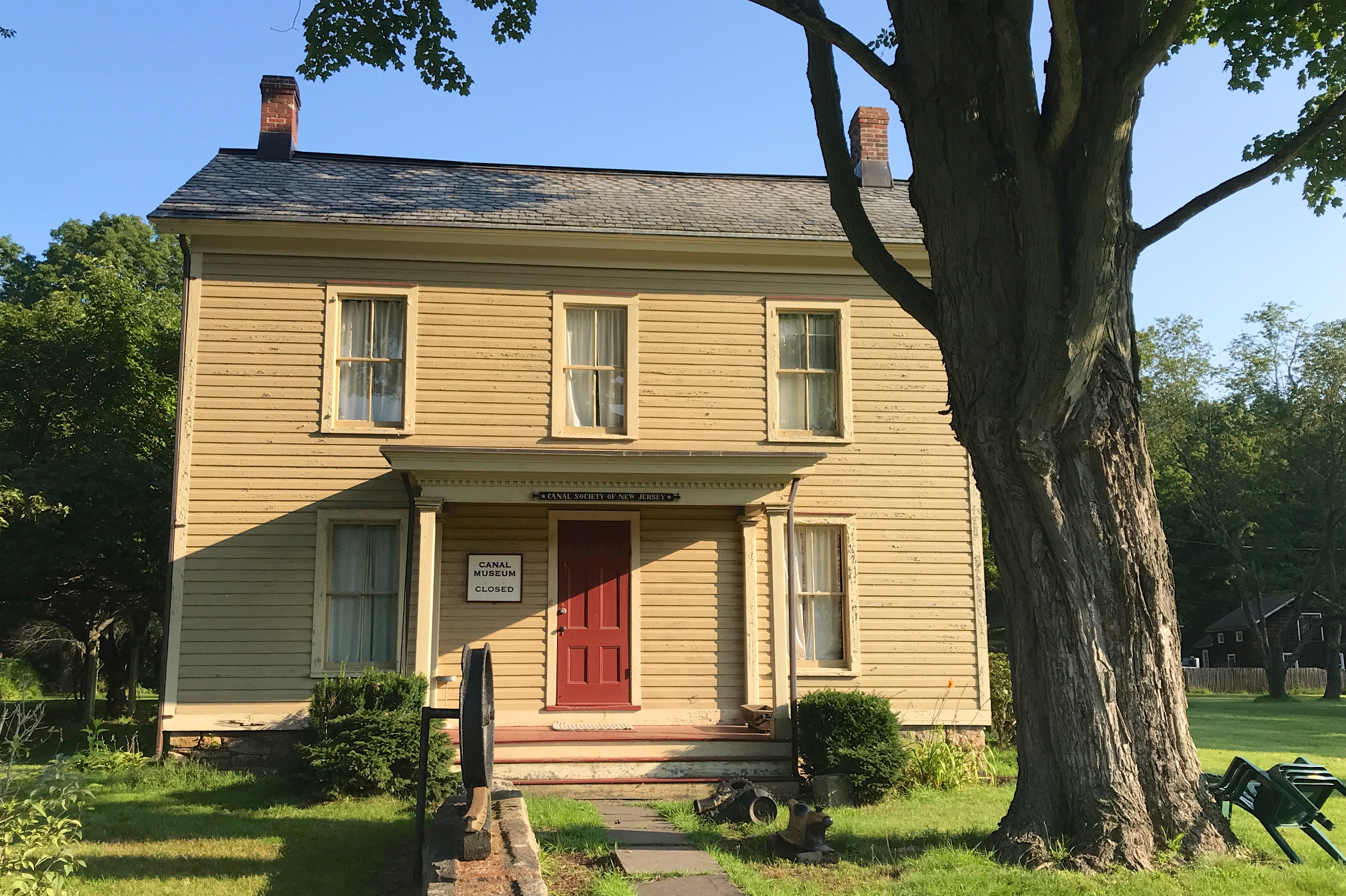 Canal Museum, also known as the Teachers Residence, at Waterloo Village, New Jersey. Currently headquarters and museum of the Canal Society of New Jersey.